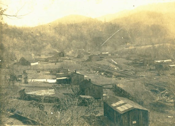 Elkmont, Tennessee, now part of the Great Smoky Mountains National Park in Sevier County, Tennessee, United States